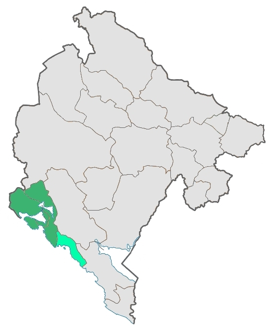 Municipalities of Bay of Kotor region in southern Montenegro. Green - municipalities that form the region (Kotor, Herceg Novi and Tivaat), light green - The municipality of Budva, which was historically considered the part of the region.